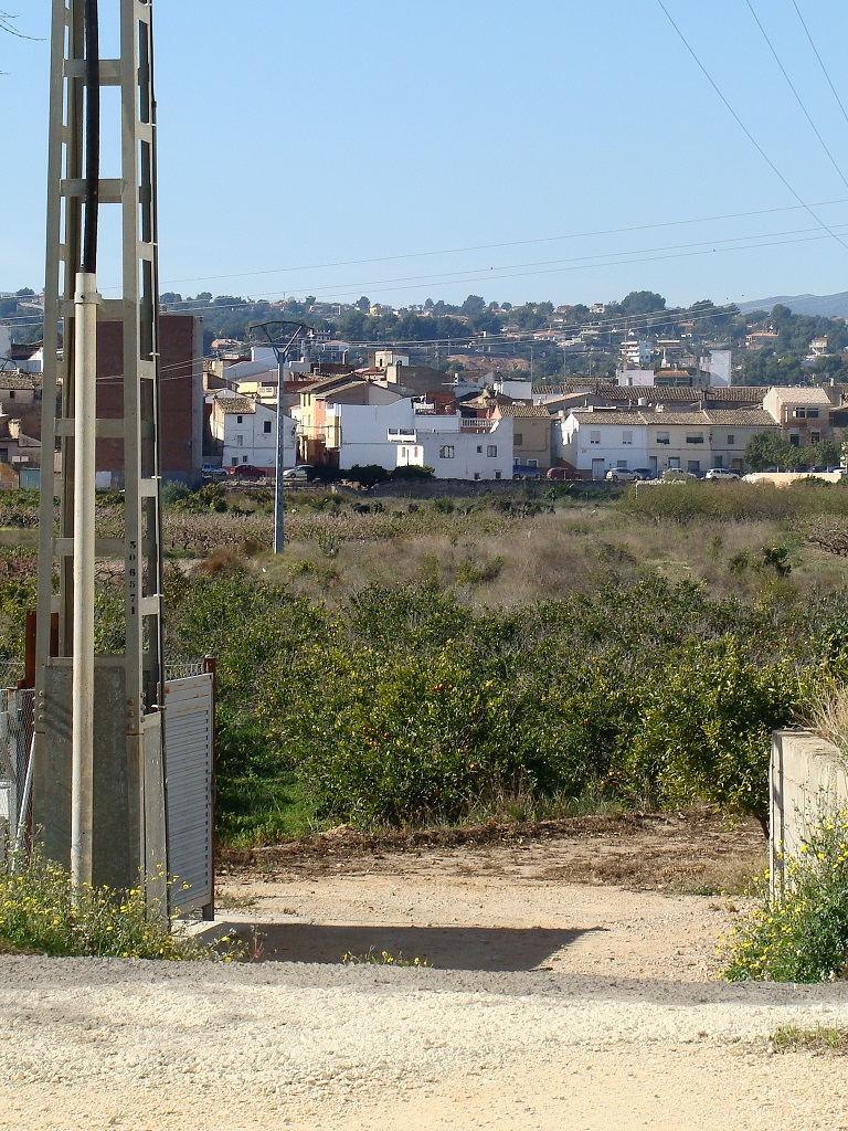 Catadau (in front) as seen from Alfarp, two towns from the Valencia Province, in Spain. Space between the two towns constitutes a small depression (about 10 feet deep) formed by the old bed from Magro River.